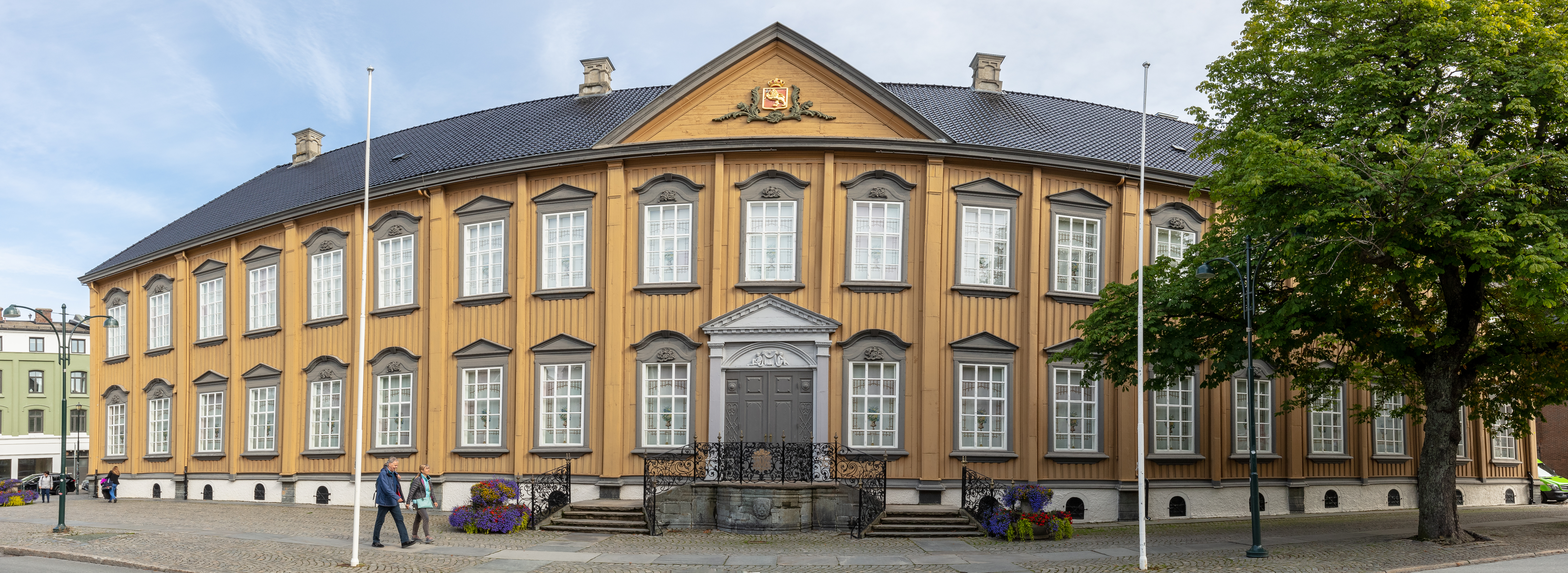 Stiftsgården, Trondheim, Norway